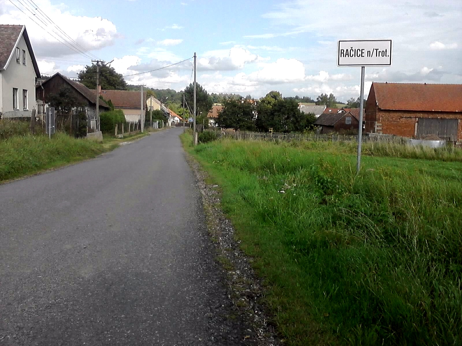 Village Racice nad Trotinou